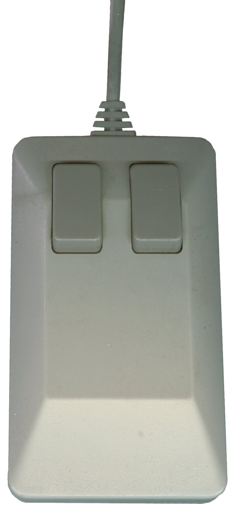 (Presumably) a Commodore 1351 or 1350 computer mouse